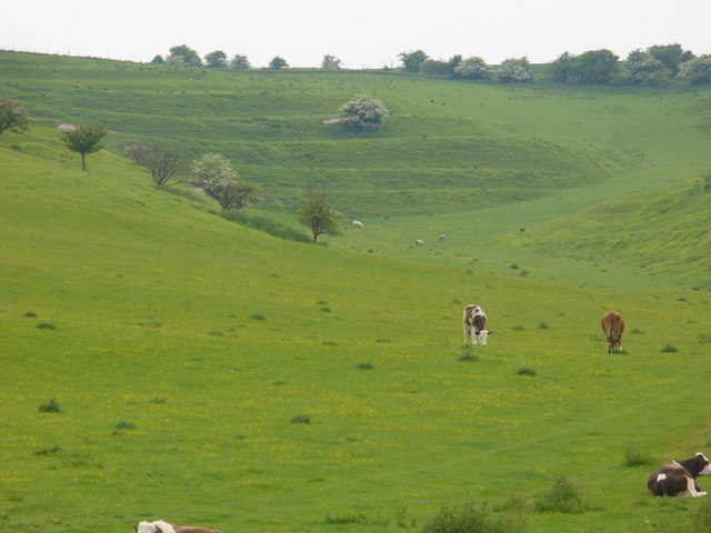 Strip Lynchets. Prehistoric terraces on the hillside north-east of Charlbury Hill. Beef cattle are grazing in the dry valley in the photograph.